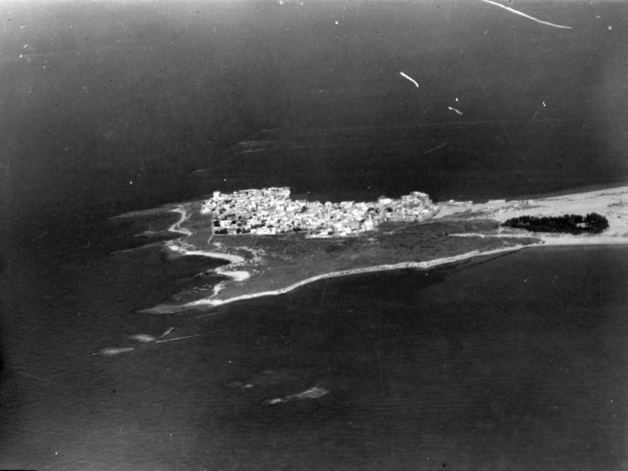 An aerial view of Tyre and the coastline, circa 1918, taken by the Australian Flying Corps